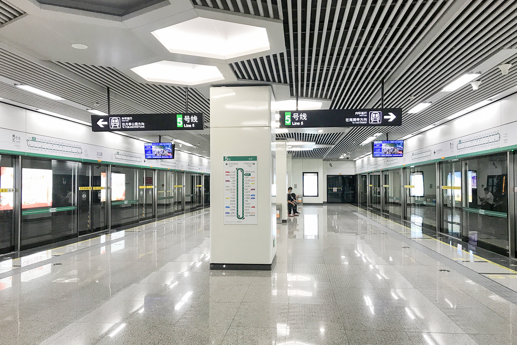 Platform of Shakoulu Station